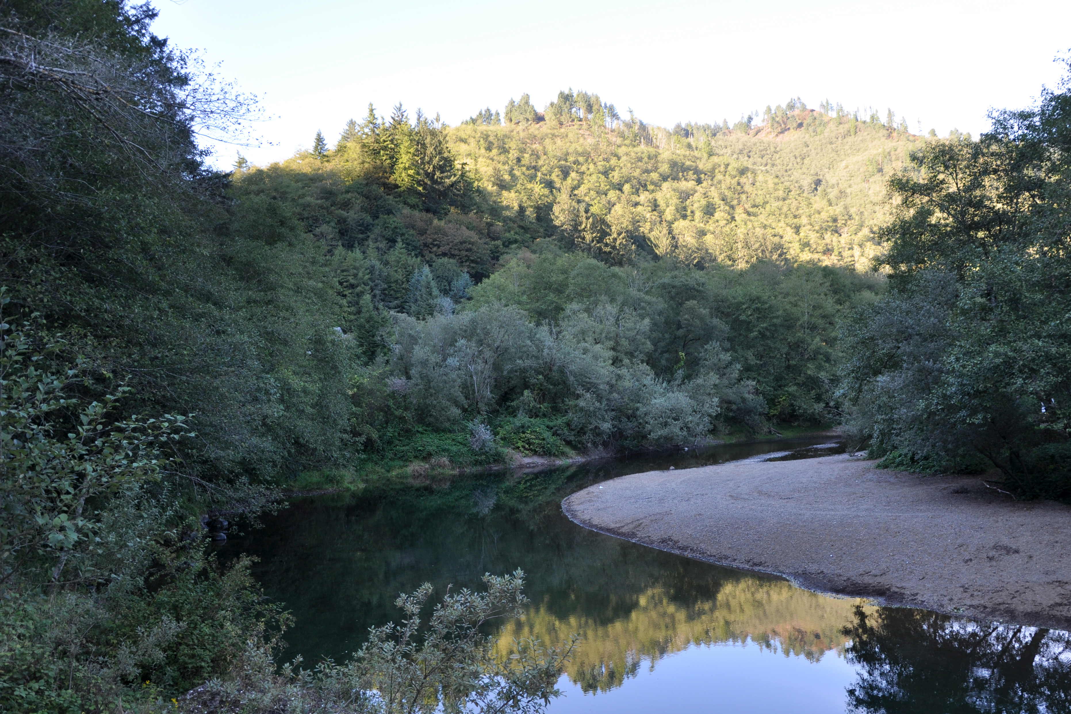 Lower Kilchis River near Idaville, Oregon, in the United States. View is upstream (roughly east) from near Kilchis River Road.